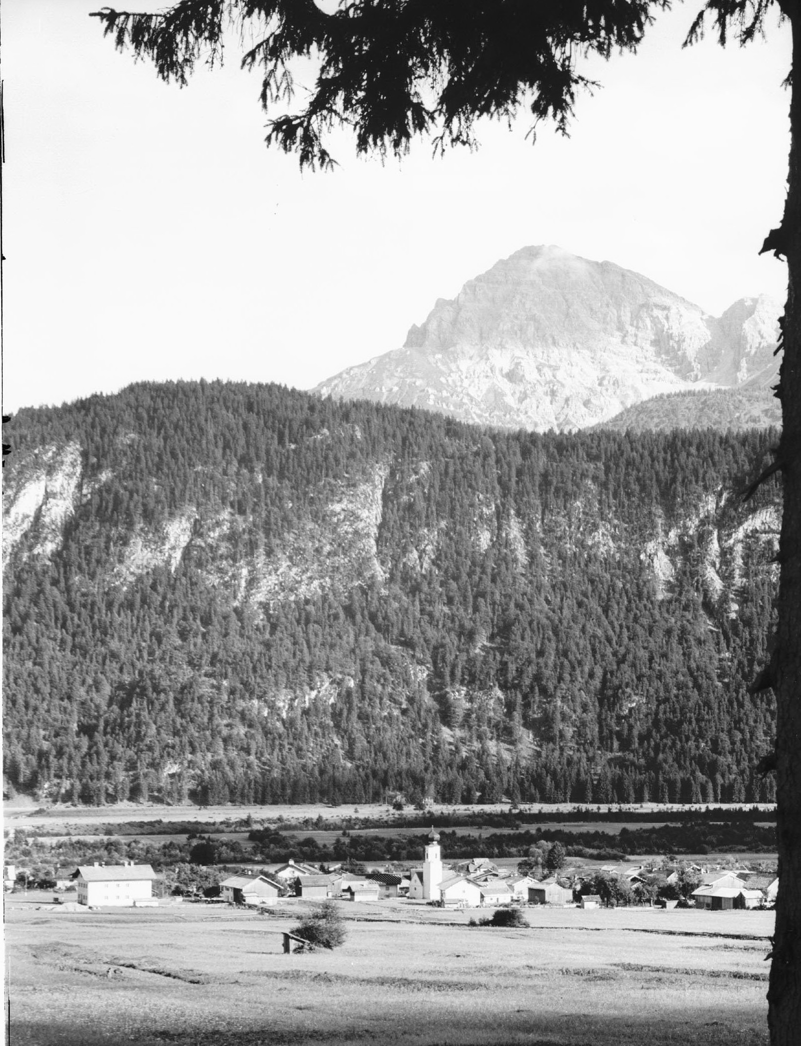 Höfen in Tyrol. 1966